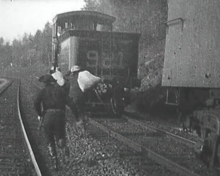 Screenshot from The Great Train Robbery (1903)